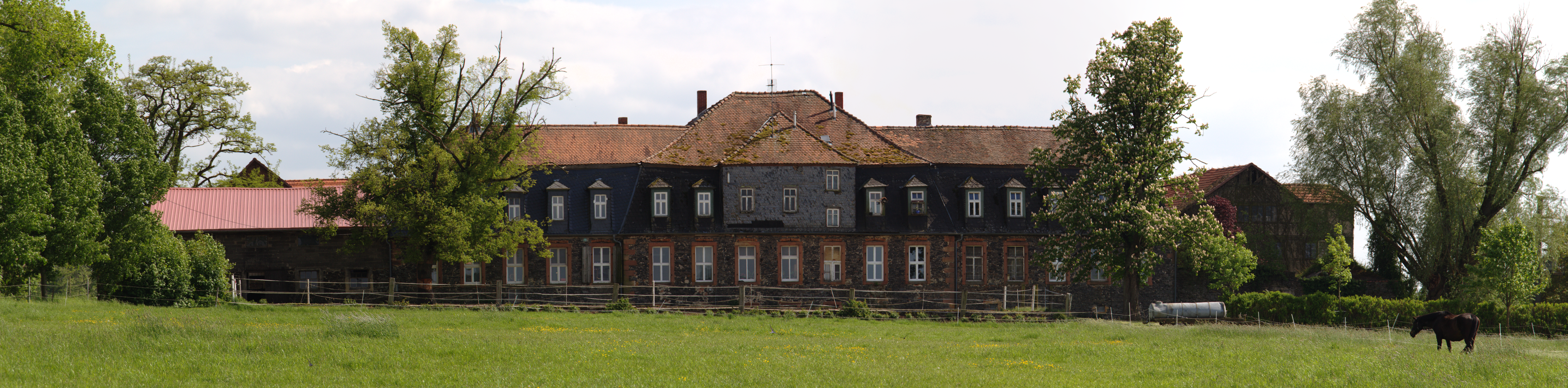 "Gestuet Zwiefalten" in Eichelsachsen, Schotten, Hesse, Germany